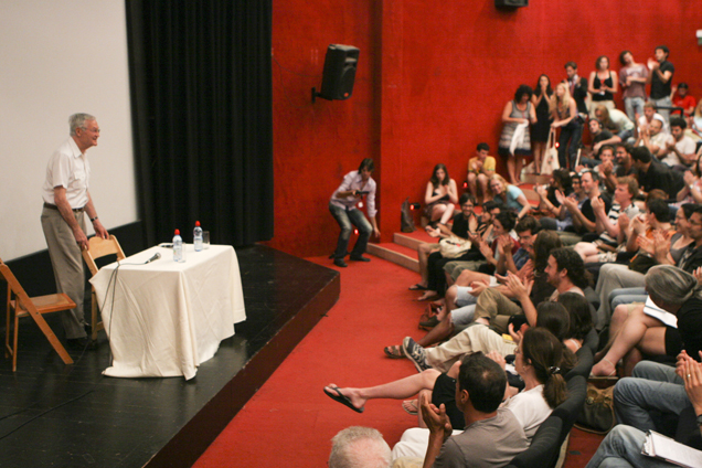 Master Class Roger Corman 2010 TASFF